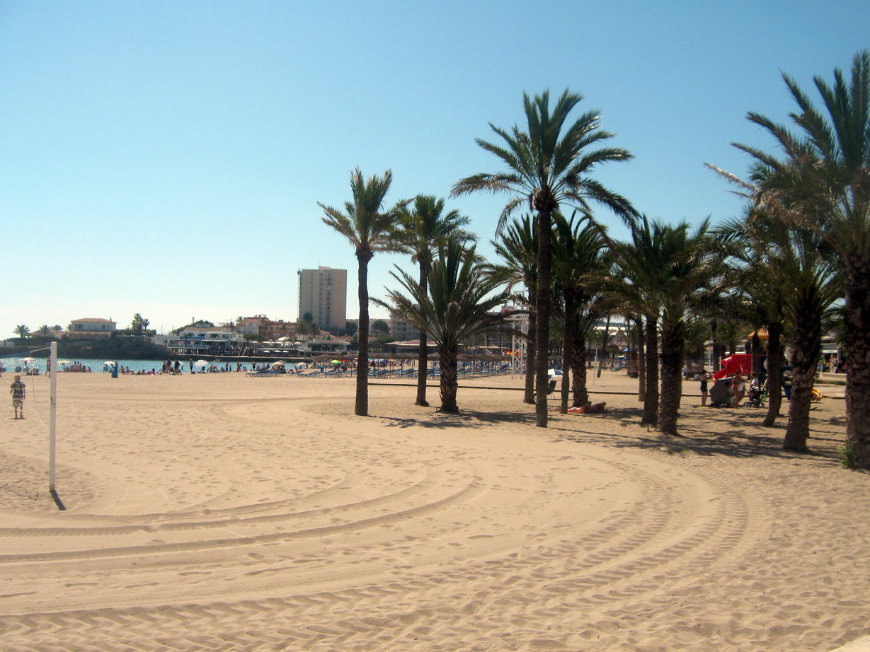 The Arenal beach in Javea at the beginning of summer - a guide to the Javea beaches and detailed description of the Arenal beach can be found here: Guide To Beaches In Javea